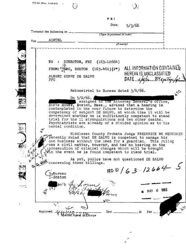 Criminal record DeSalvo raised by the FBI in Boston in 1966